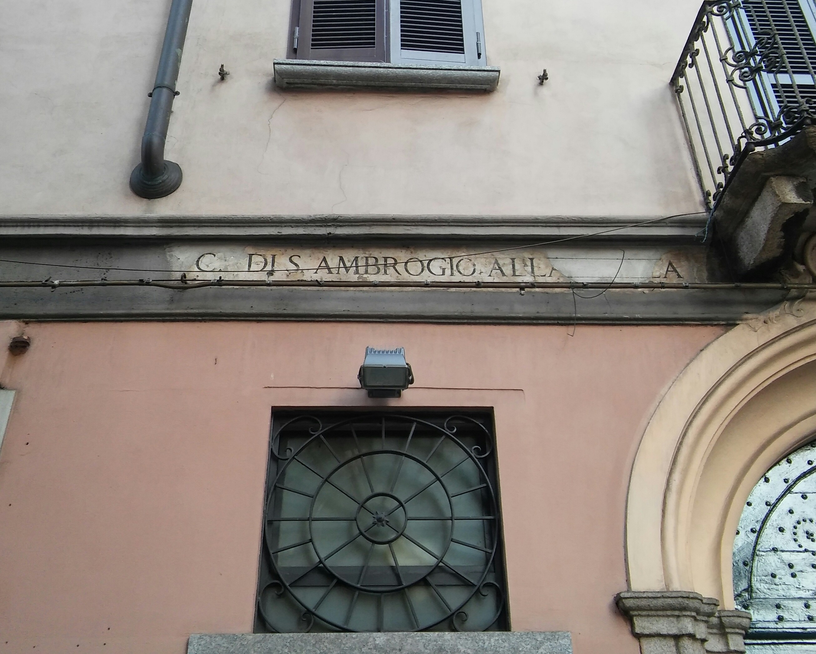 Ancient austrian sign in Milan, "contrada di sant'Ambrogio alla palla, today via San Maurilio